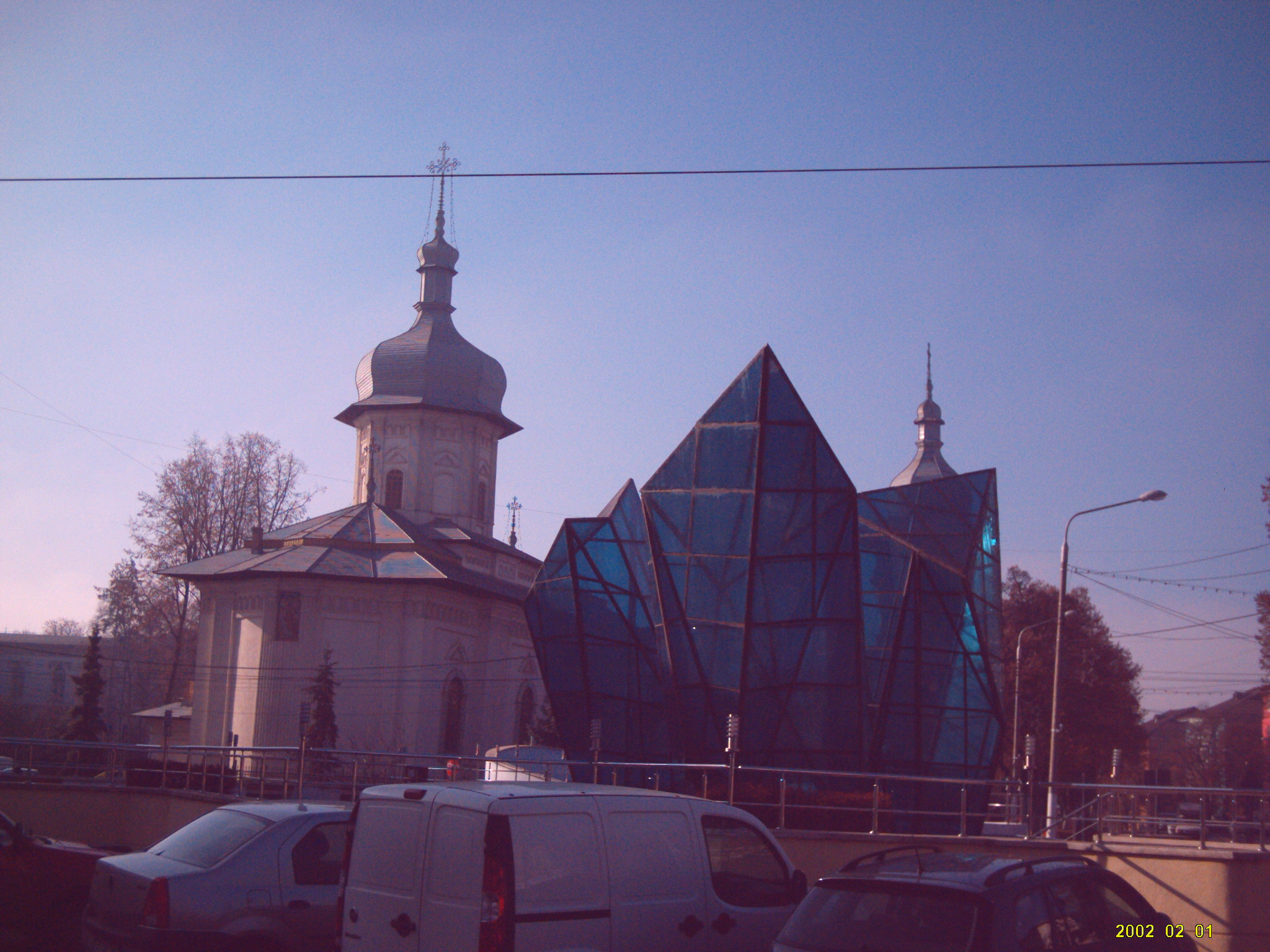 Precista Mare